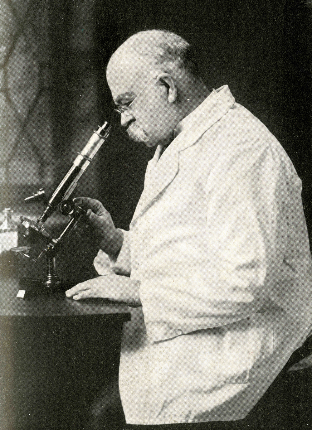 A photograph of the American physician/mycologist Charles E. Fairman. Age about 60. Photo was later in Fitzpatrick's eulogy article: Fitzpatrick HM. (1935). "Charles Edward Fairman". Mycologia 27 (3): 229–34. (